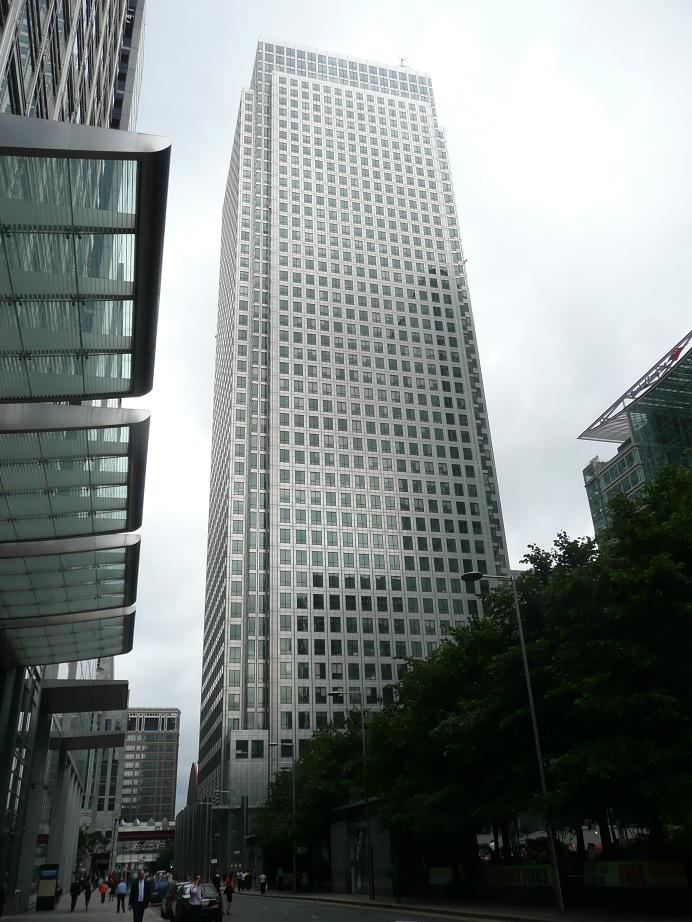 One Canada Square Tower